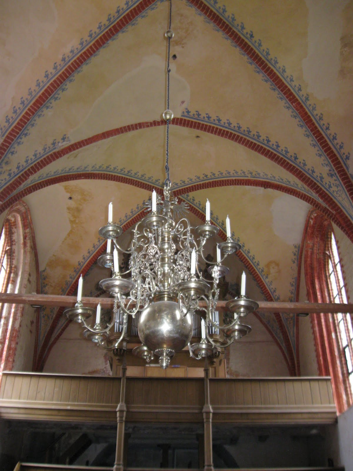 A candleholder in the church of Kirchdorf Poel